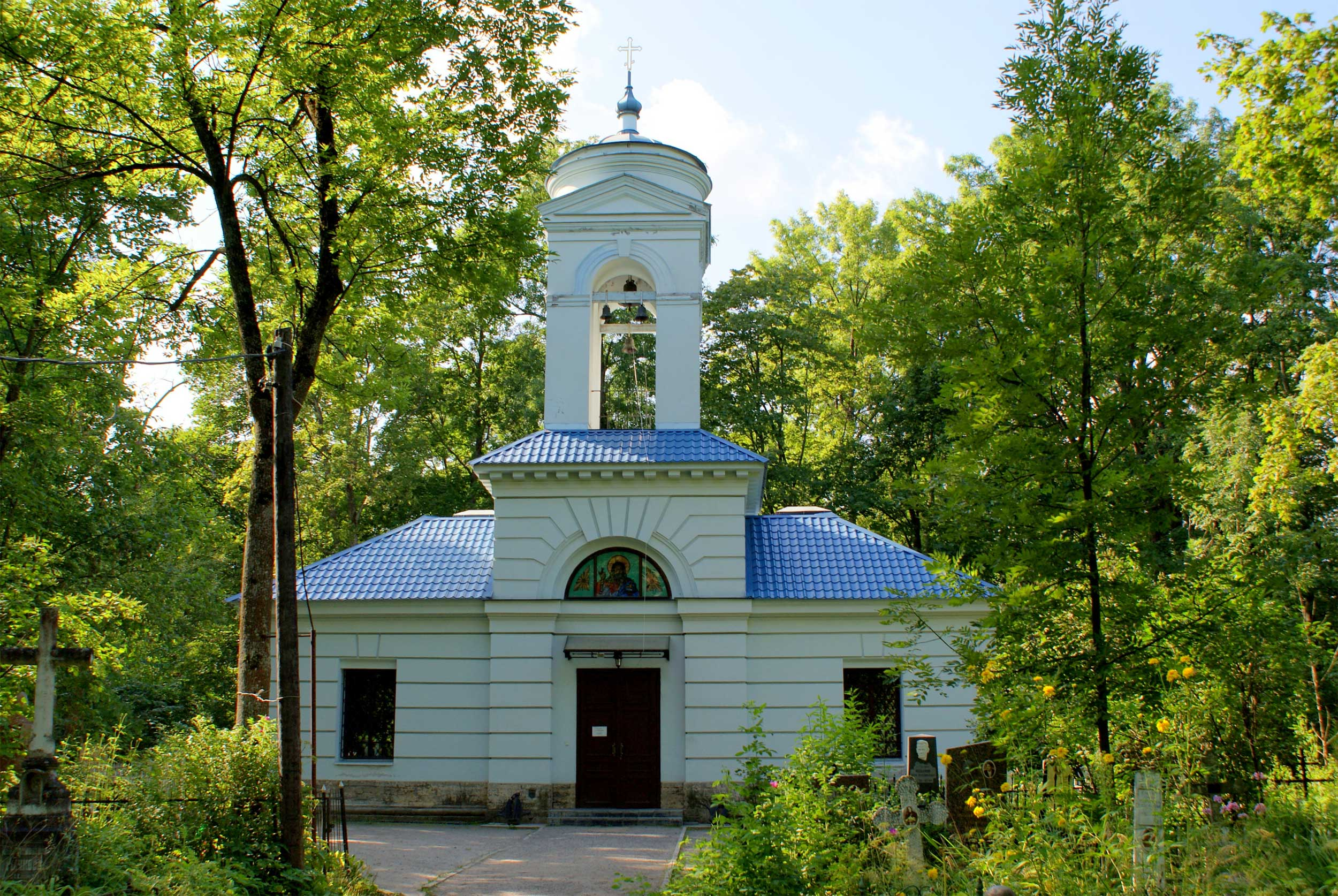 St. Nicholas chapel on Kazanskoye cemetry in Tsarskoye Selo